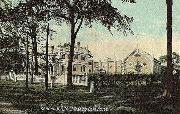 "Wedding Cake House," Kennebunk Landing, ME; from a 1912 postcard.